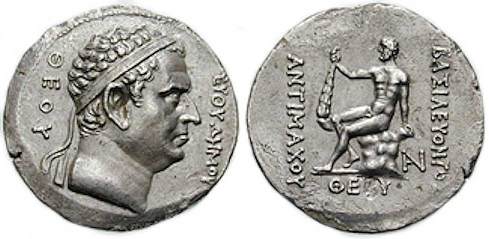 Euthydemos Theos for Antimachos Theos commemorative coin. Circa 174-165 BC. AR Tetradrachm (16.14 gm). EUQUDHMOU right, QEOU left, diademed head right / BASILEUONTO right, ANTIMACOU left, QEOU in exergue, Herakles seated left on rock, holding club before knee; (AN) monogram in lower right field.